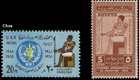 Imhotop Egyptian stamps: 1920s & 1968